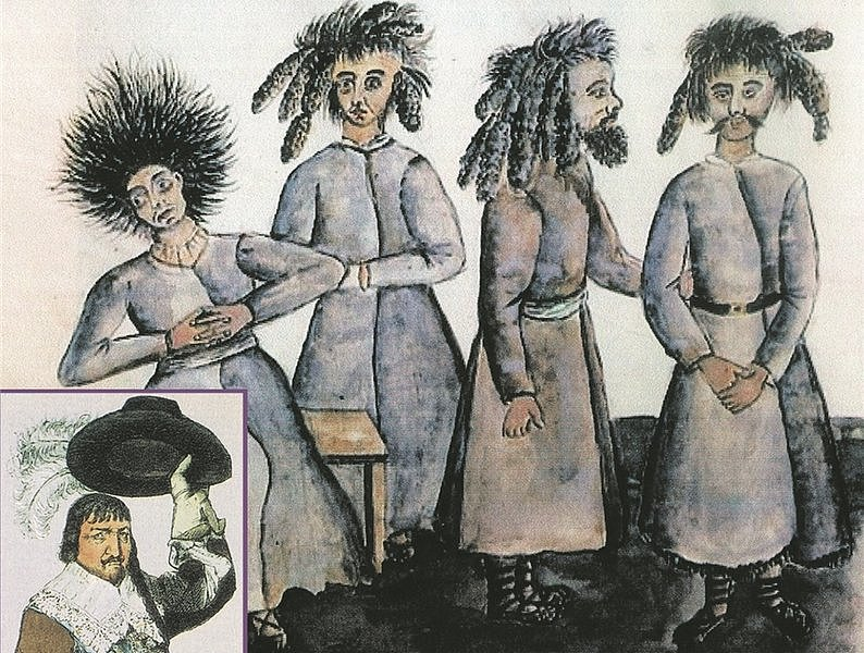 Drawing of peasants with "polish plaits" from the area where Ukraine is located today, c1854. The smaller drawing is of Danish-Norwegian King Christian IV (1577-1648).